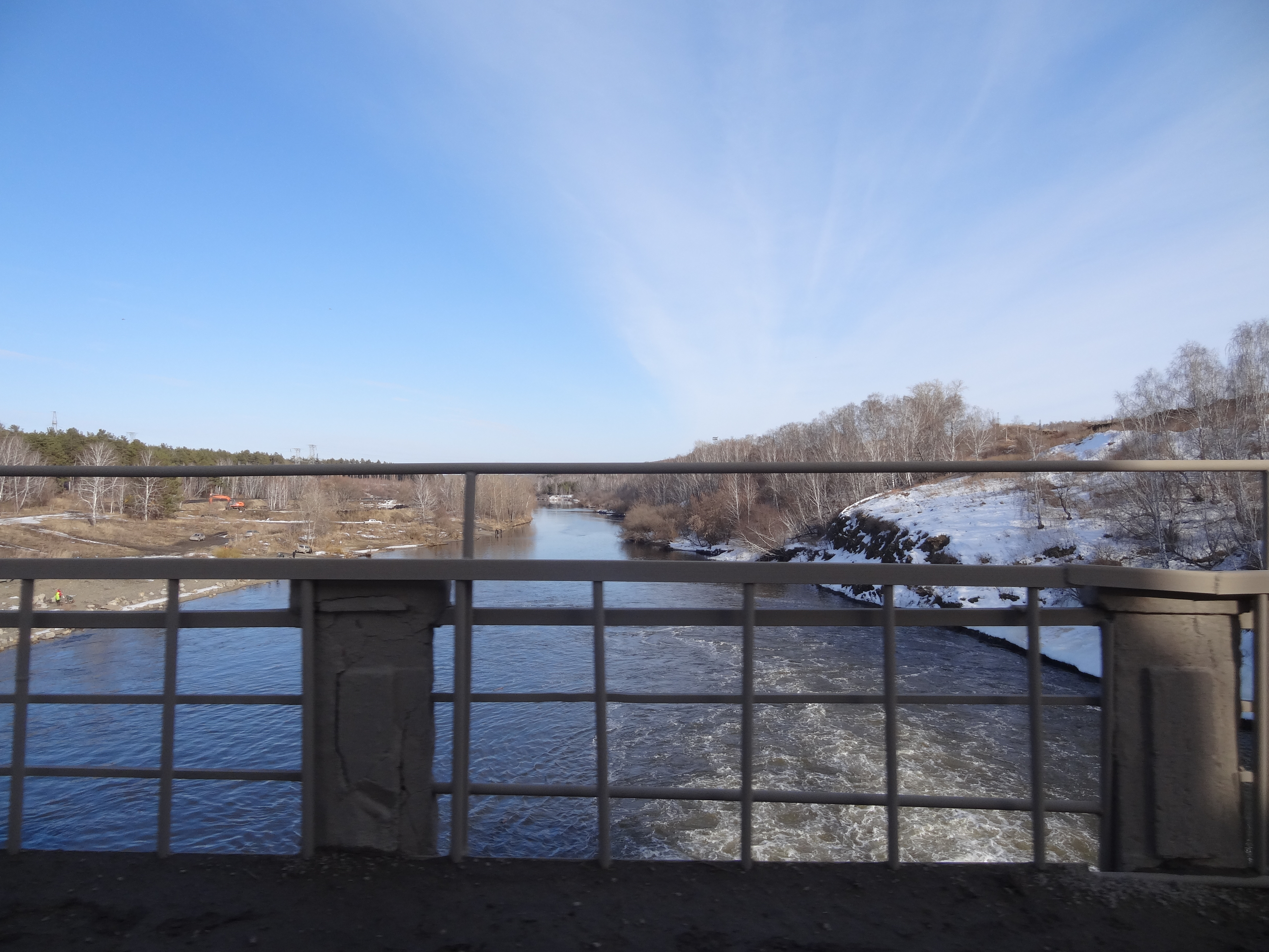 Volkovskaya Dam (Sverdlovsk Oblast, Kamensk-Uralsky district).